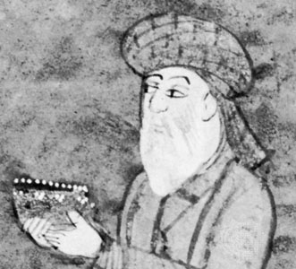 Hafez, detail of an illumination in a Persian manuscript of the Divan of Hafez, 18th century; in the British Library, London.